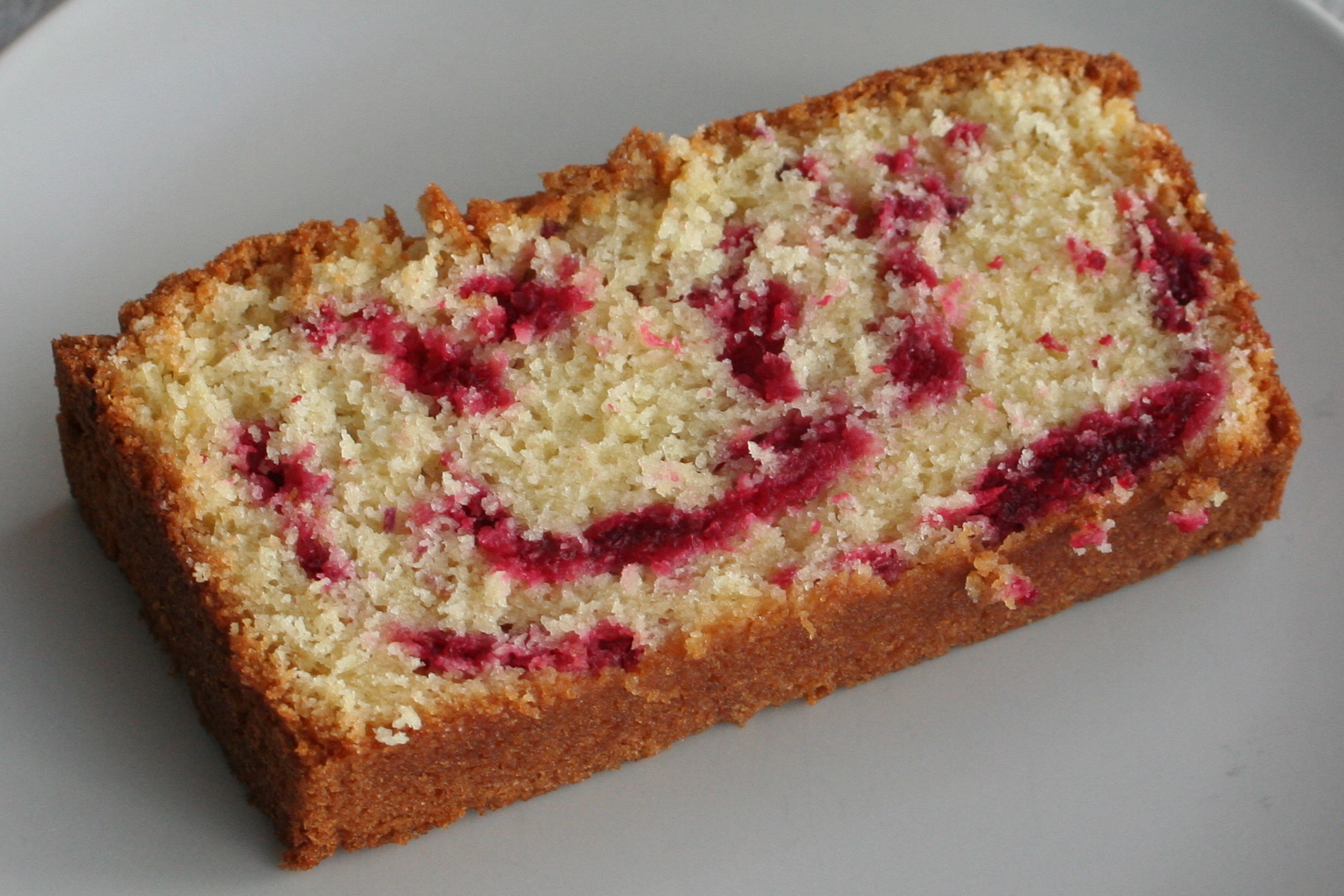 Cranberry Coffee Cake - recipe